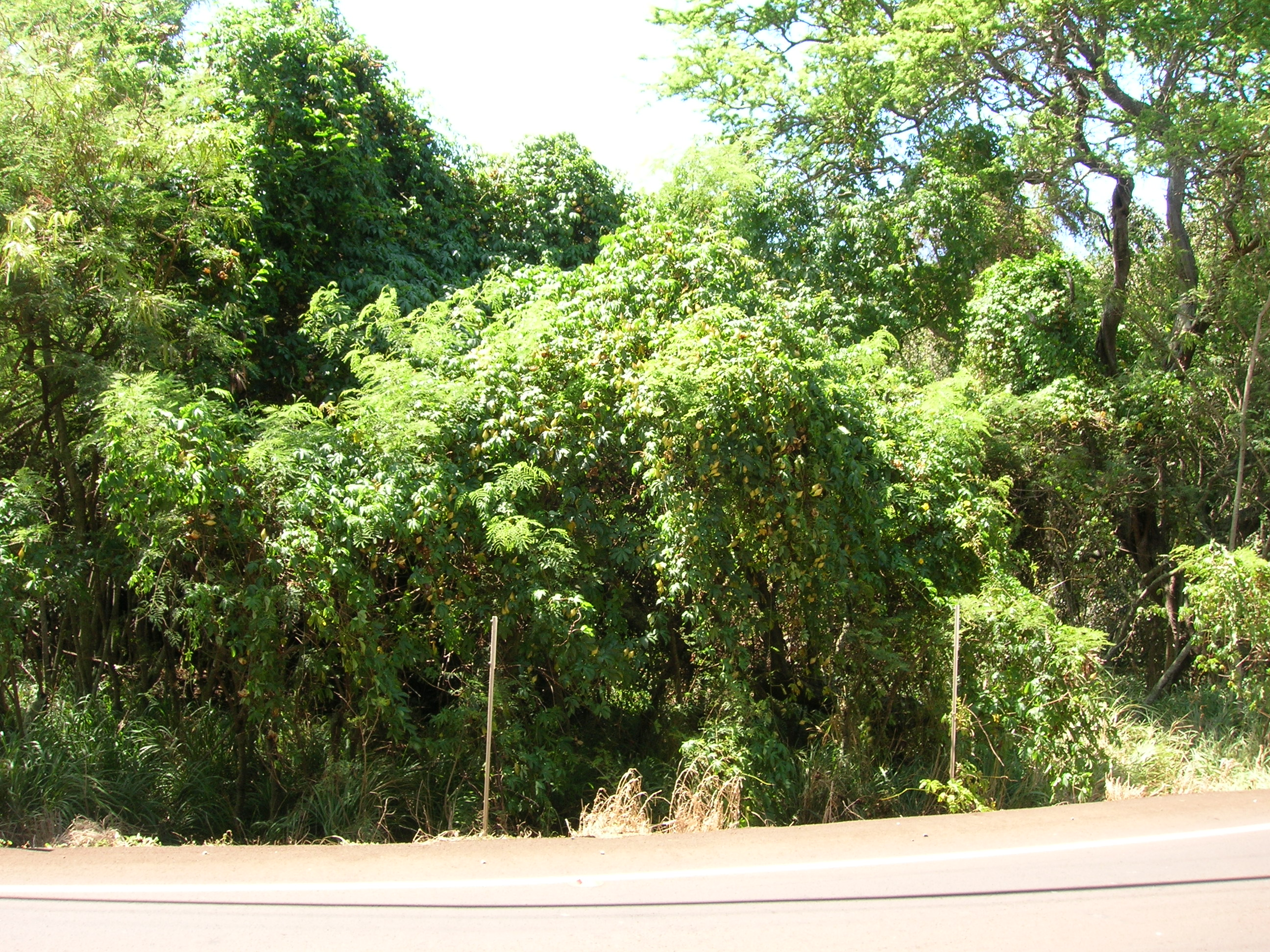 Merremia tuberosa (habit). Location: Molokai, Kamalo